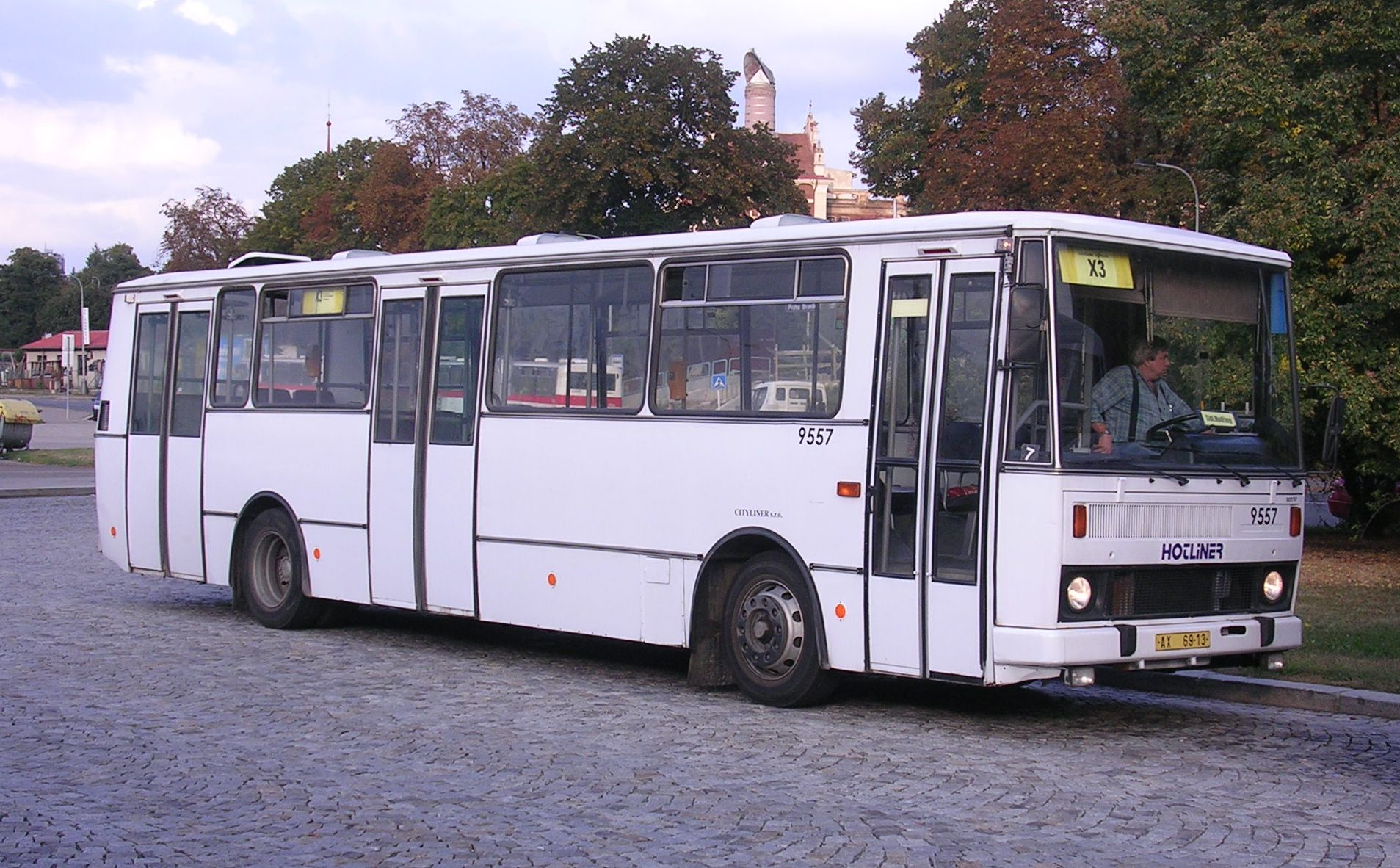 Braník, Prague, the Czech Republic. Bus terminal near Praha-Braník train station. X-3 substitute bus.